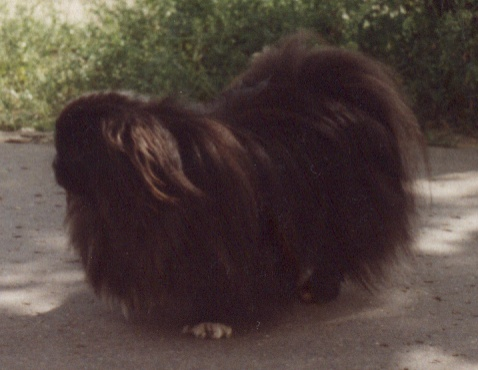 Black pekinese Tihamér on the street in 1994